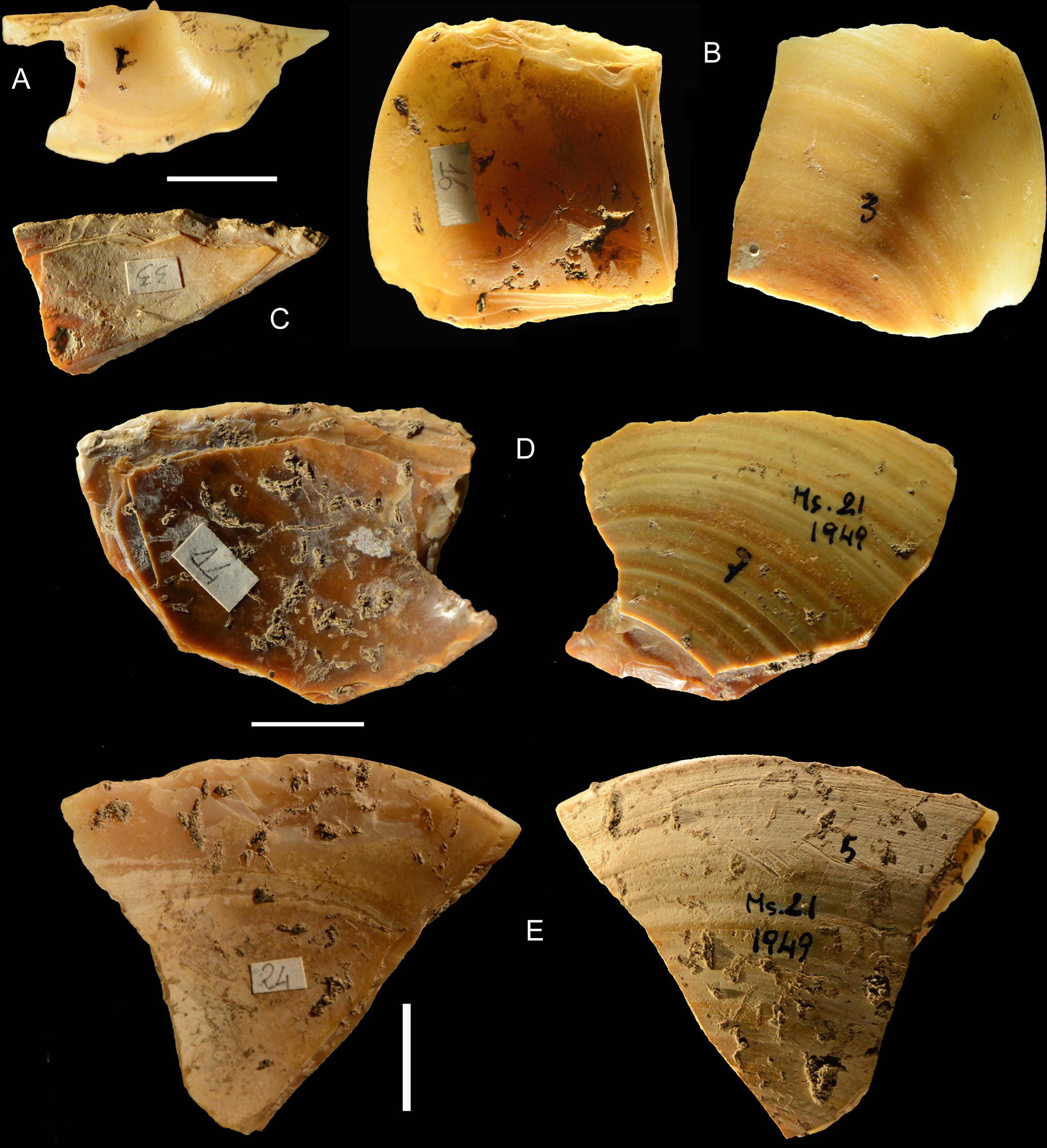 Specimens of Callista chione some gathered from the sea floor (A, B, D) and some washed up on the beach (C, E). (A) No.74, unretouched umbo. The unabraded and shiny surface indicates that the bivalve was gathered from the sea floor. (B) No. 16, left valve, the break to the right is posterior to the retouch but the retouched edge is complete; note the shiny dorsal surface. Pits are post-depositional, not borings due to marine organisms because they are present also in retouched areas; (C) No. 33, the retouched edge is broken on the left side, the internal and external surfaces have an opaque, chalky appearance with dissolution indicating that the shell was washed up and collected on the beach. (D) no. 14, mesial part of a right valve covered with postdepositional concretions and a retouched edge broken on the right side but the break is prior to retouch; the unabraded and shiny dorsal surface shows that the shell was gathered from the sea floor. (E) No. 24, left valve with an intact portion of the fringe to the right, the left side is broken but the fracture is prior to the retouch; the eroded band following the growth lines and the opaque external surface indicate a beached specimen. Scale bar = 1 cm.